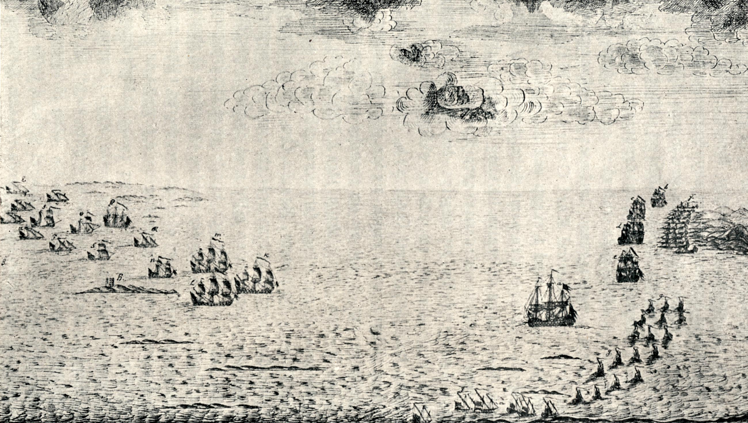 Battle of Grengam 1720 according to a contemporary drawing. a=Pommern, b=Danska Örn, c=Vainqueuer, d=Kiskin, e=Stora Phænix. The Russian fleet of galleys is seen to the very right.